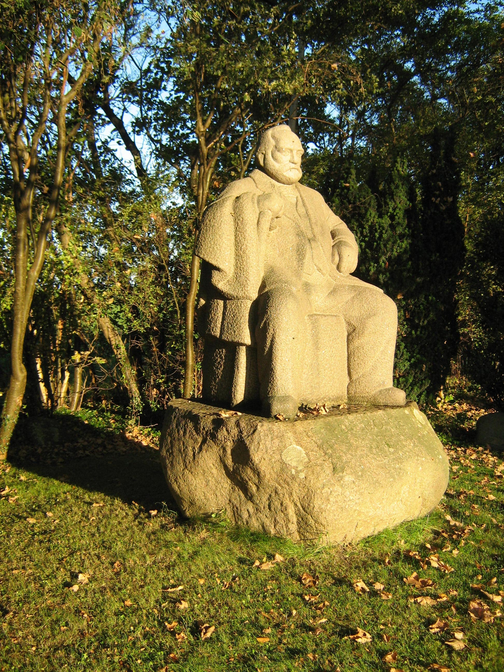 Statue of Frede Bojsen, founder of Rødkilde Højskole, Møn, Denmark, sculpted in 1929 by Gunnar Hansen (1901-1972). The statue stands in the grounds of the school.